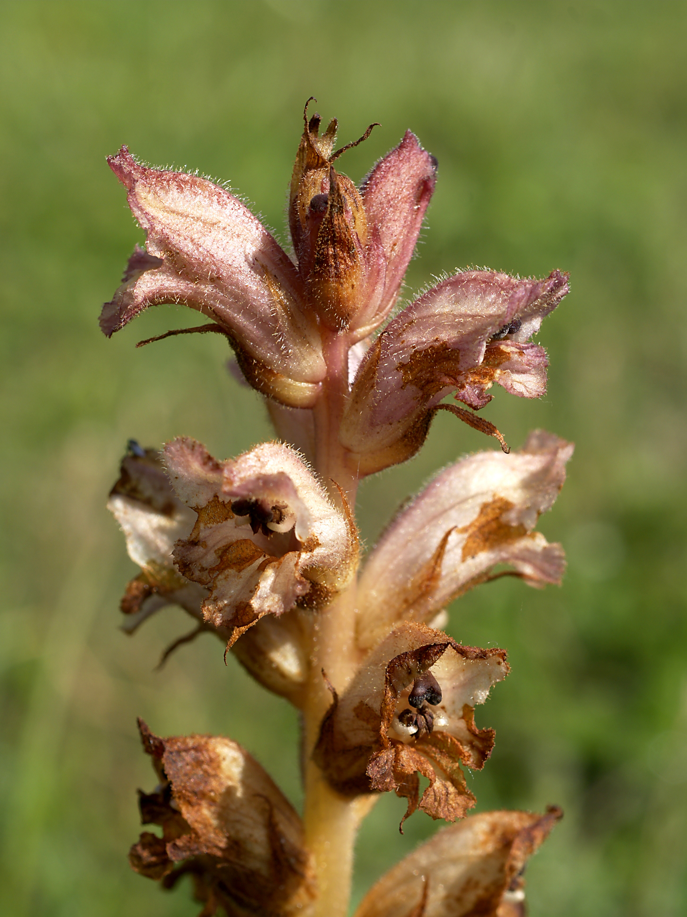 Bedstraw Broomrape (Orobanche caryophyllacea) inflorescence at Zwarte Kiezel, De Haan, Belgium